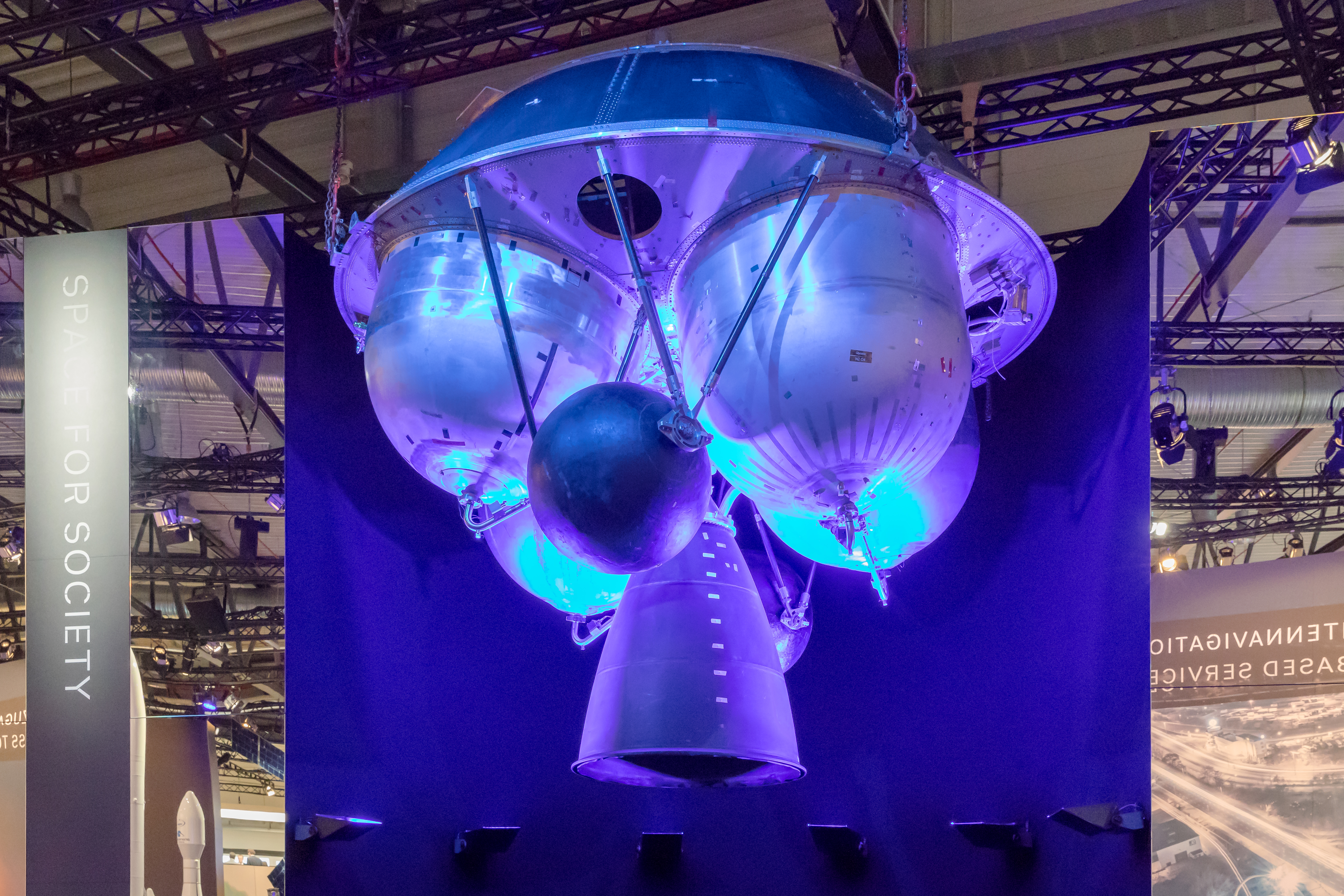 ILA 2018